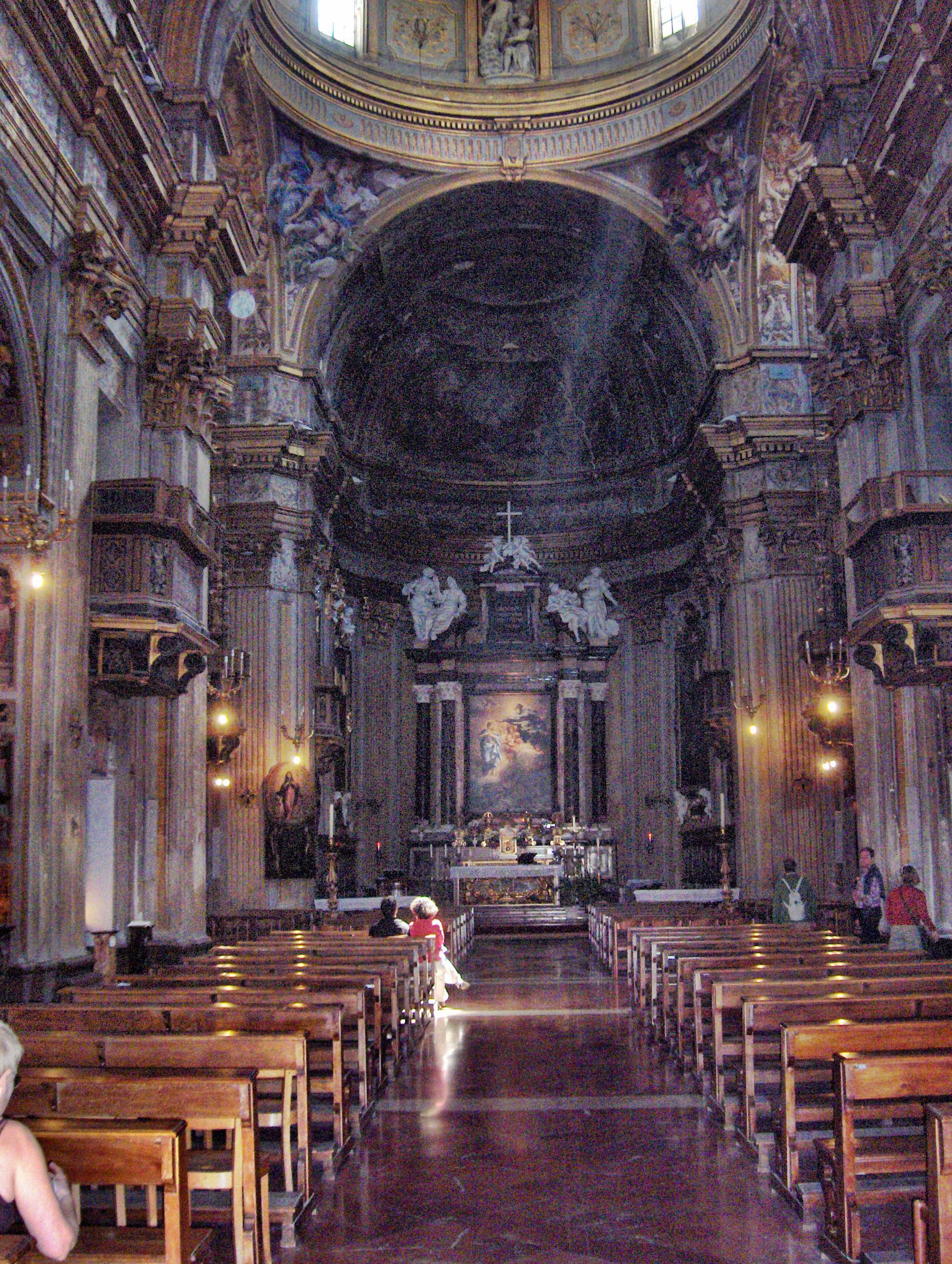 Nave and apse of the Baroque church of San Filippo Neri, Perugia, Italy